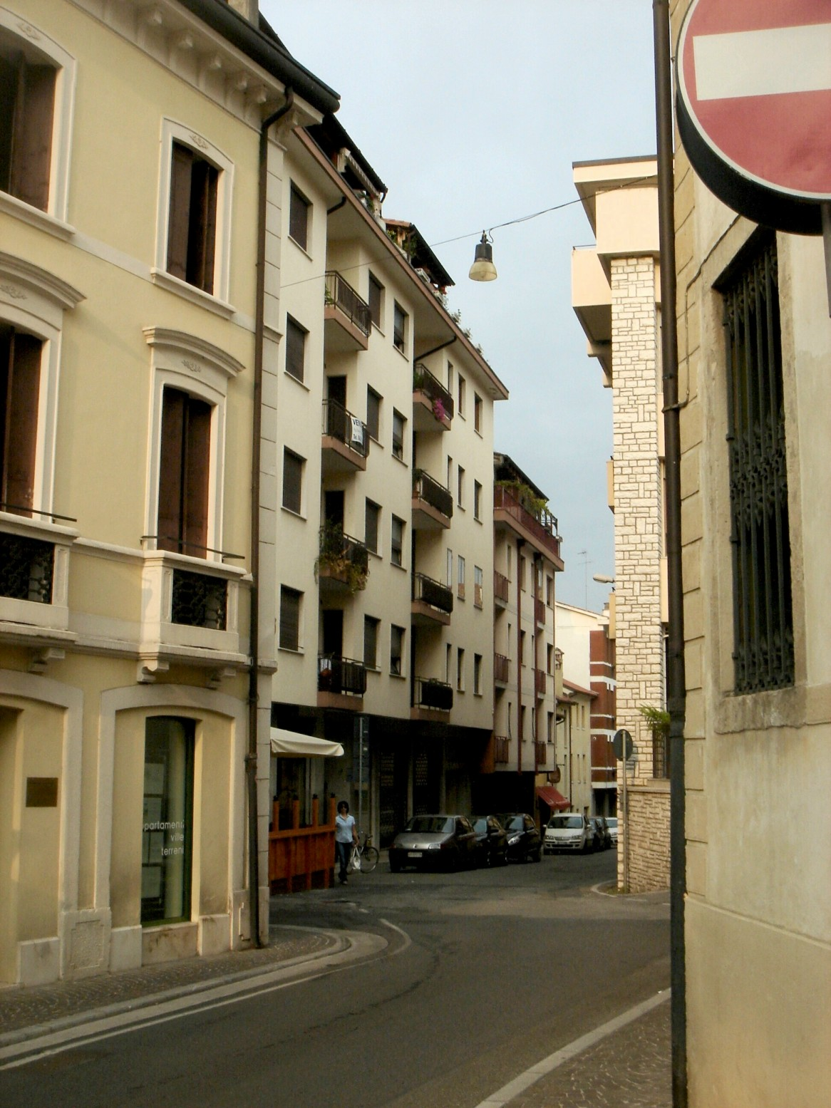 Conegliano, Treviso, Italia: Pietro Caronelli street.